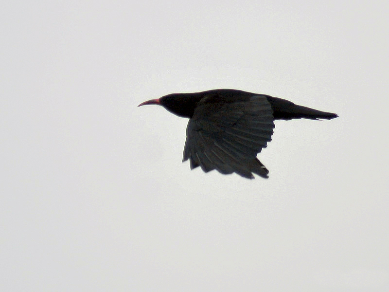 Red-billed Chough Pyrrhocorax pyrrhocorax in Kullu District of Himachal Pradesh, India.